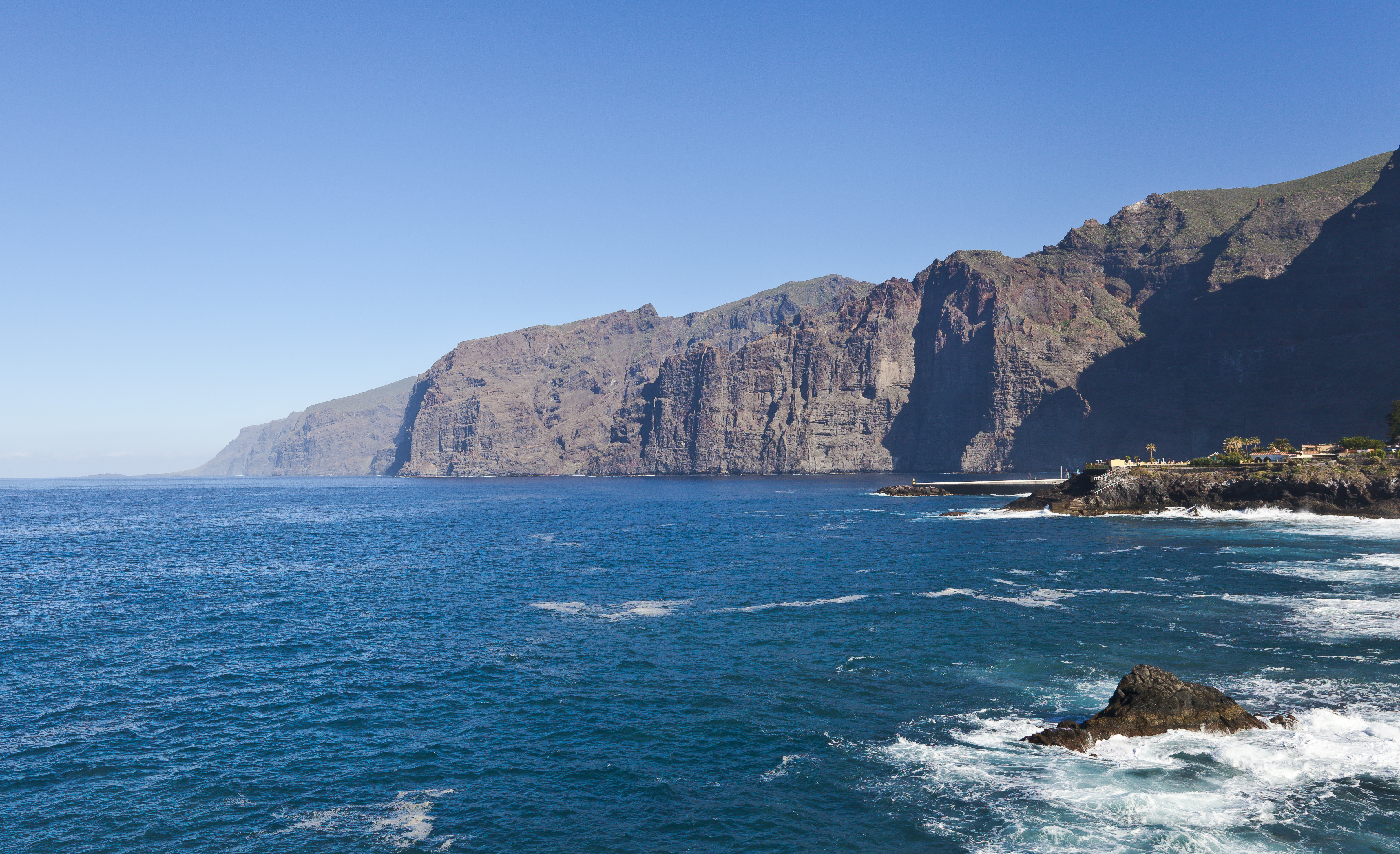 Los Gigantes, Tenerife, Spain